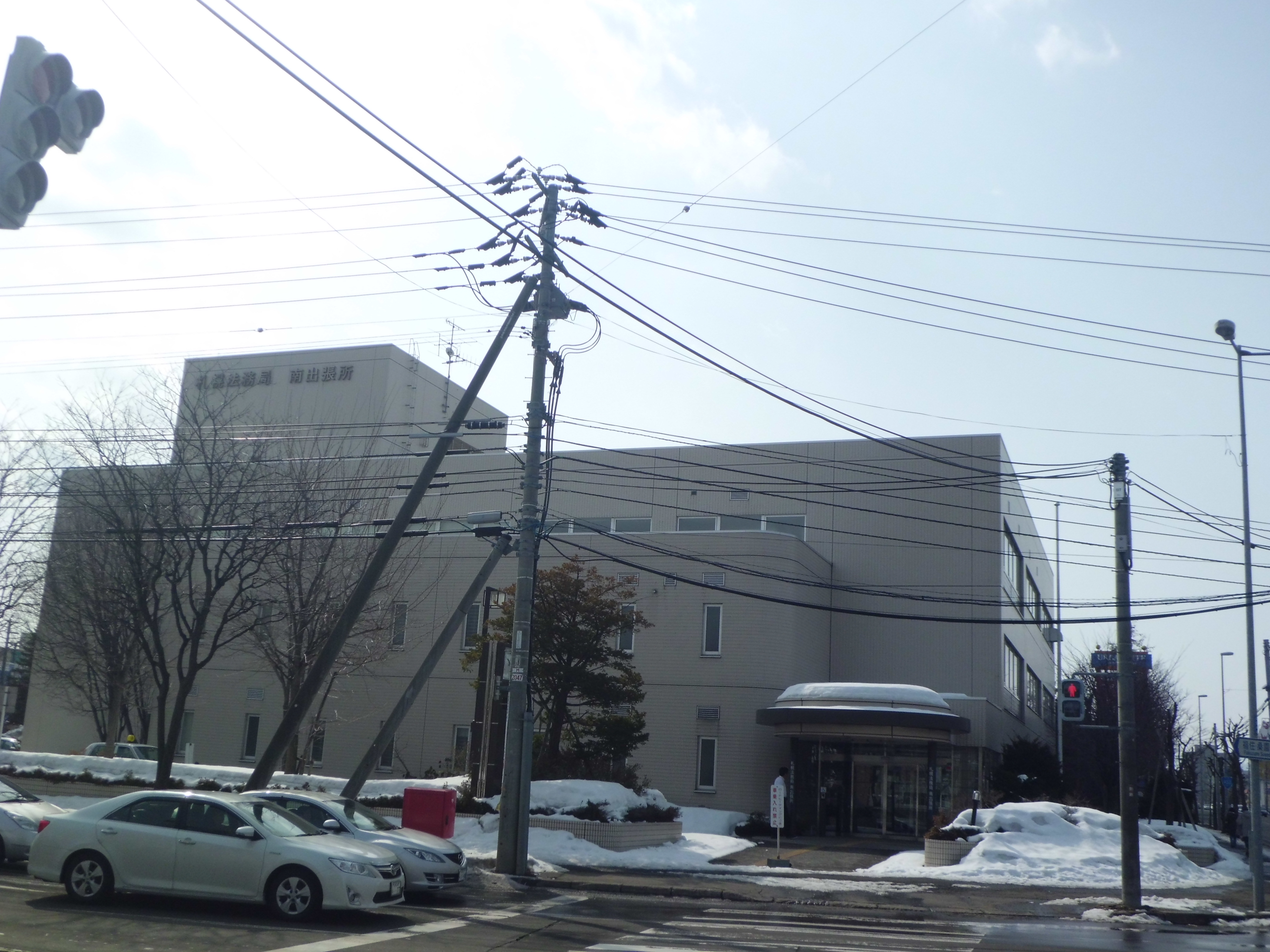 Sapporo Legal Affairs Bureau South Branch